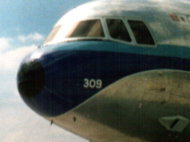 L-1011 TriStar of Eastern Air Lines